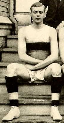 Photograph of Ed Cook, Indiana University basketball coach